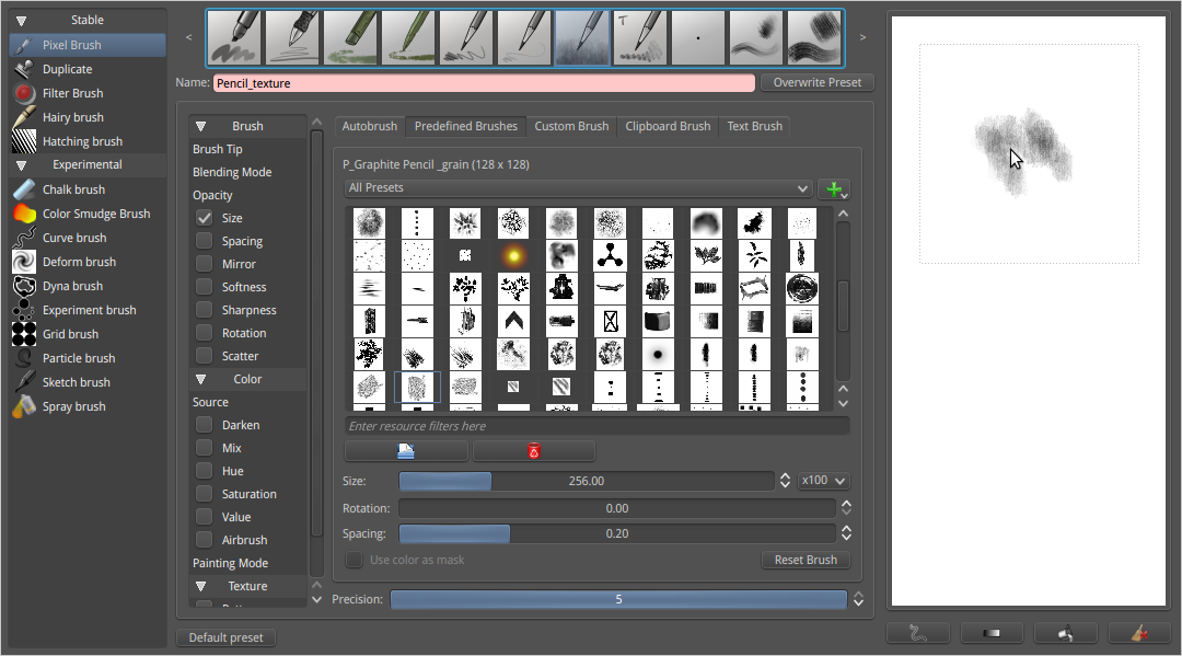 Krita's brush engine in its edit mode.